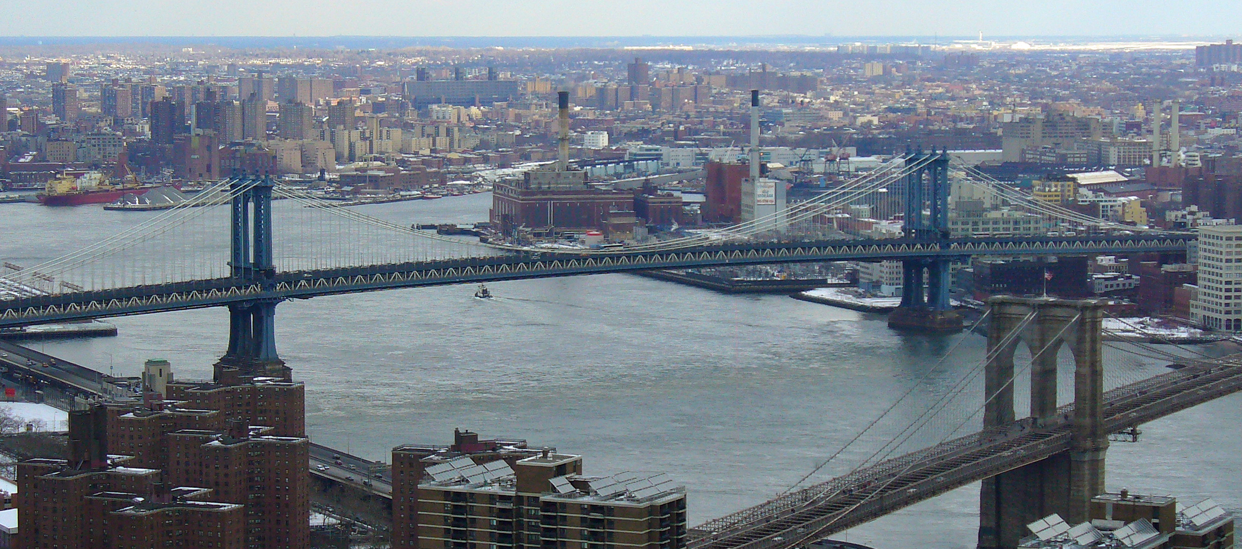 Manhattan Bridge New York by David Shankbone.